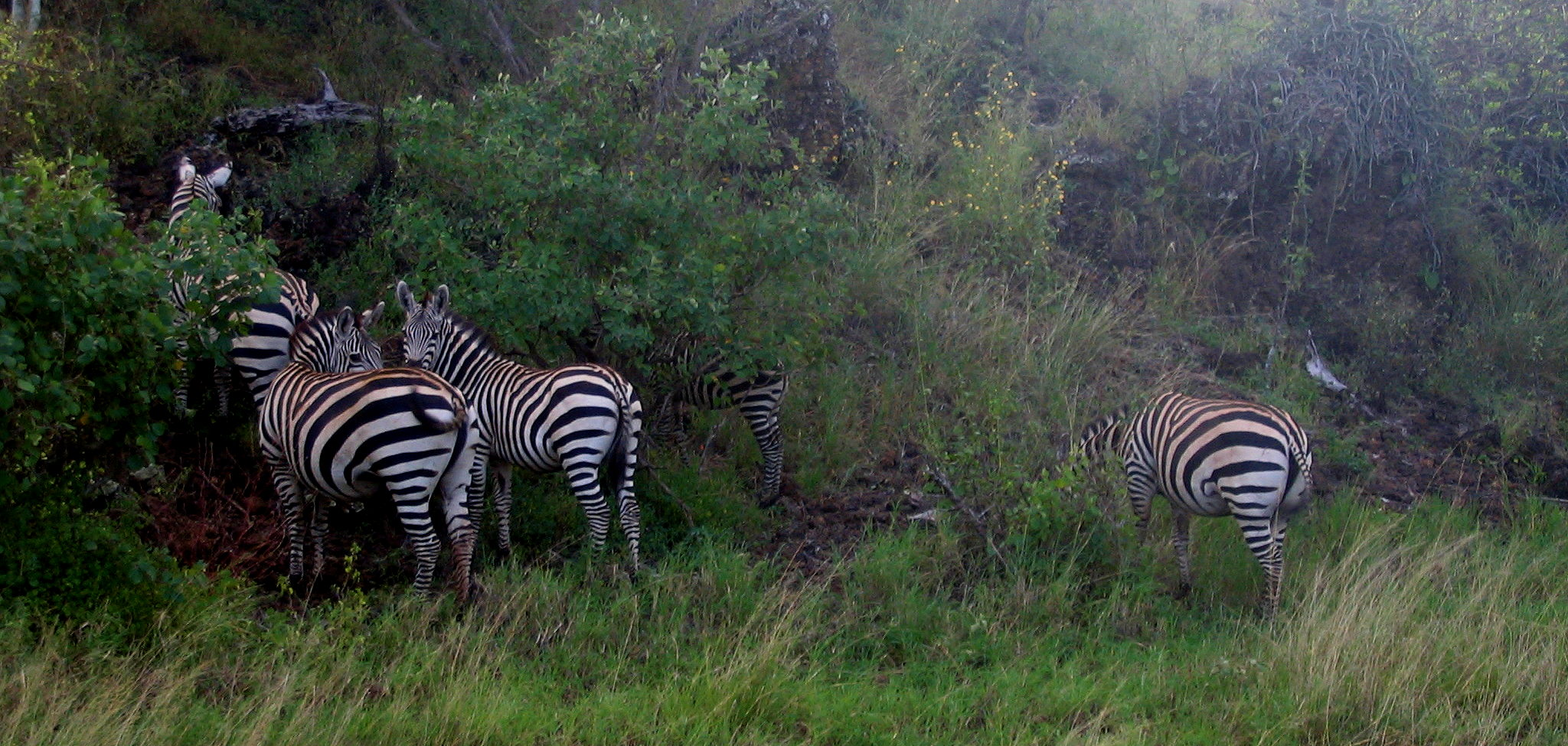 Equus quagga boehmi (Grant's Zebra) group in Tsavo West National Park, Kenya.